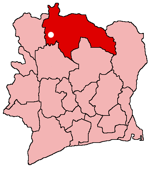 Location of Boundiali, Cote d'Ivoire